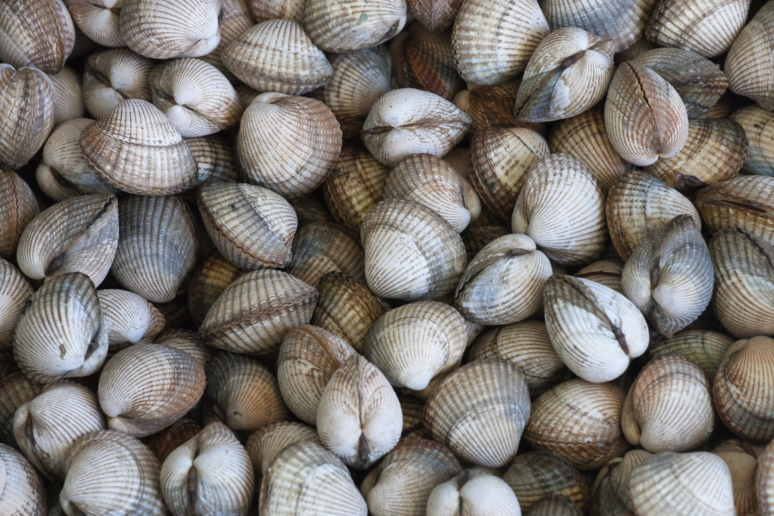 Cockles (Cerastoderma edule), fish market of O Carril, Vilagarcía de Arousa, Galicia, SpainGalego: Berberechos (Cerastoderma edule), lonxa do Carril, Vilagarcía de Arousa, Galiza